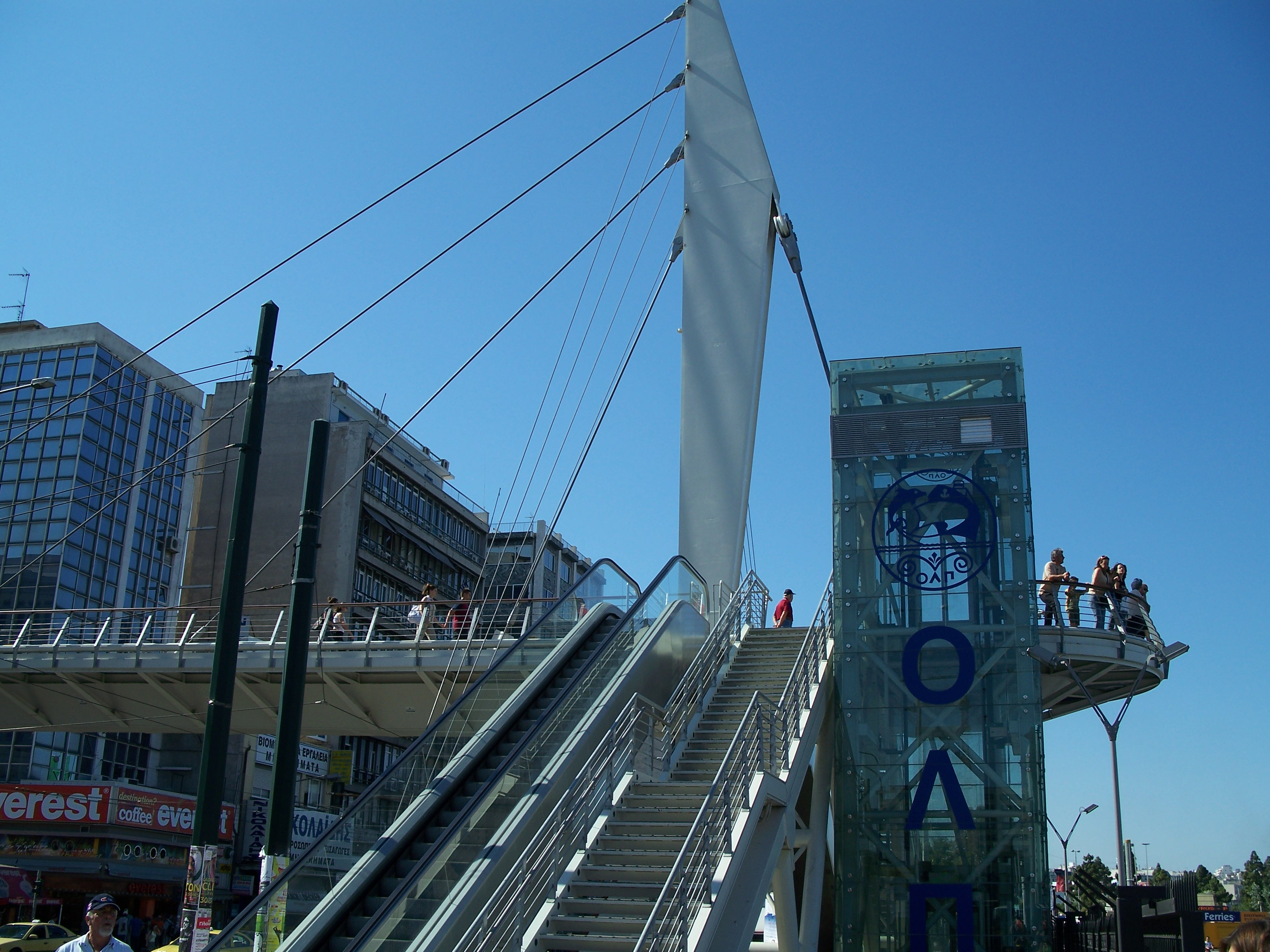 A pedestrian bridge outside the Metro Station at Piraeus. It was a donation by OLP (the organization that runs the port). It is reminiscent of a ship's mast and bow, the balcony is great for sightseeing and taking photos of the port :)